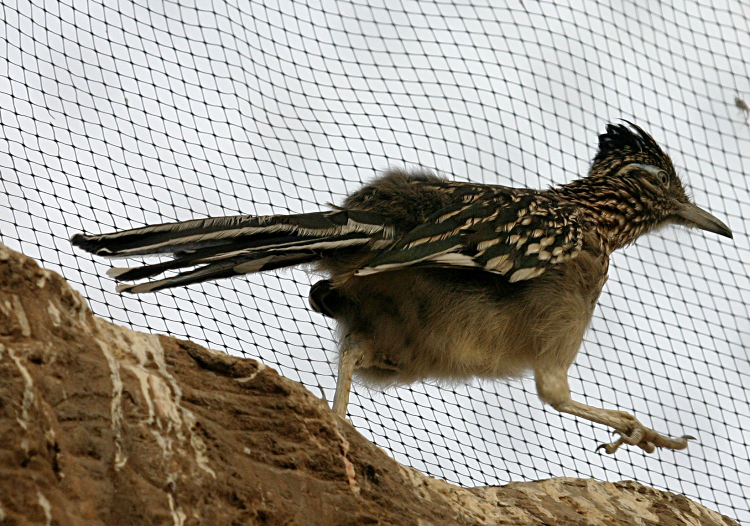 Greater Roadrunner at the Henry Doorly Zoo in the Omaha, Nebraska.